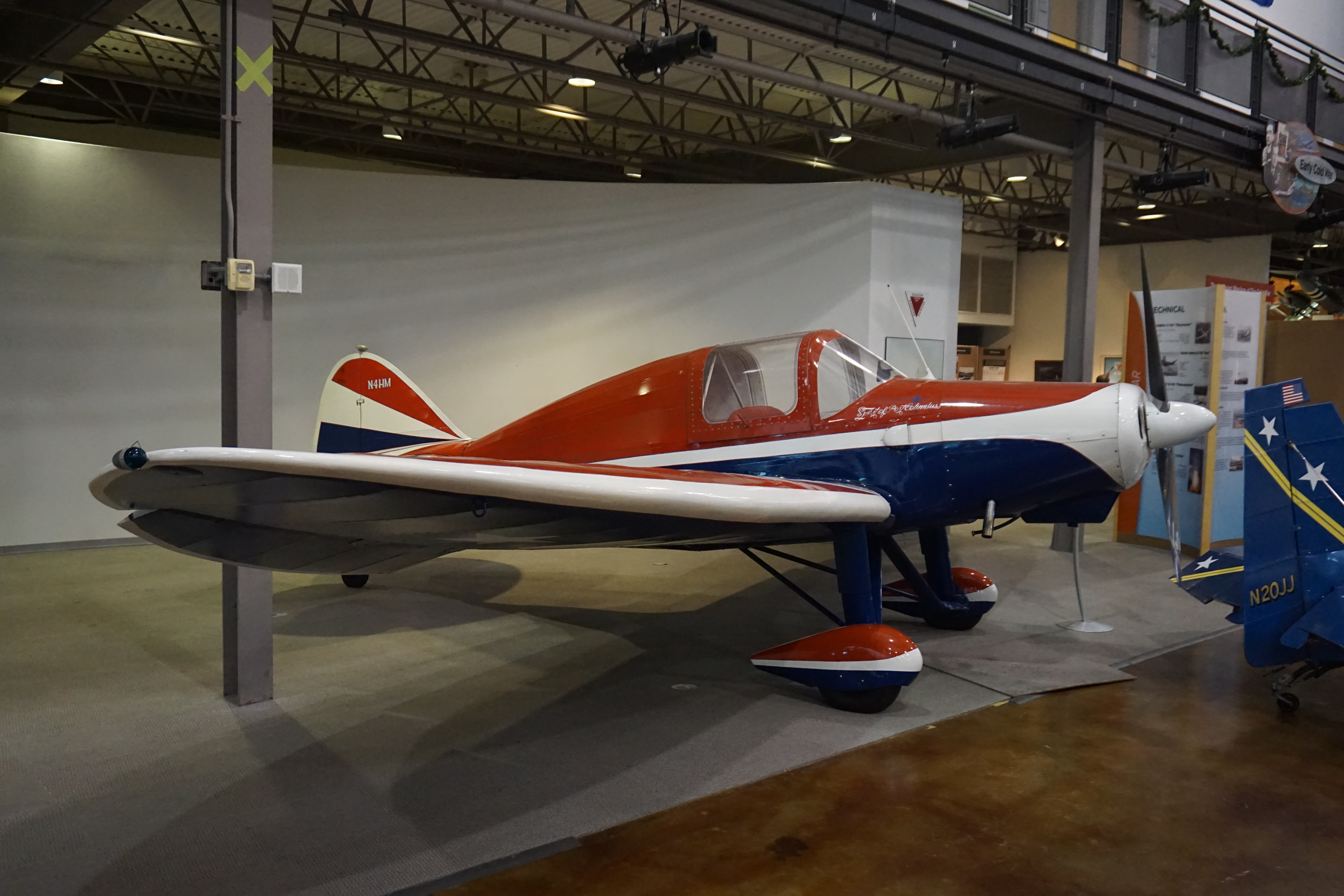 A Culver Dart GC on display at the Frontiers of Flight Museum at Dallas Love Field in Dallas, Texas (United States).